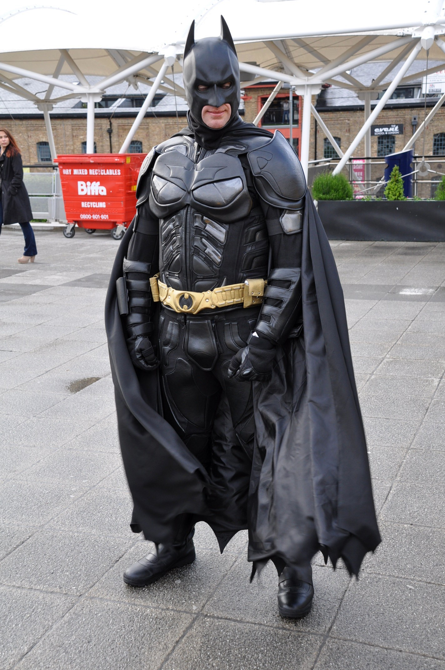 DSC_0167 Cosplay at the Summer 2013 MCM London Comic Con at the ExCeL Exhibition Centre.